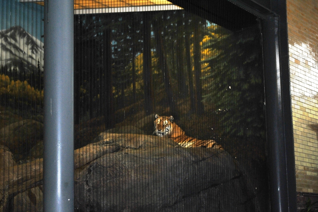 Lincoln Park